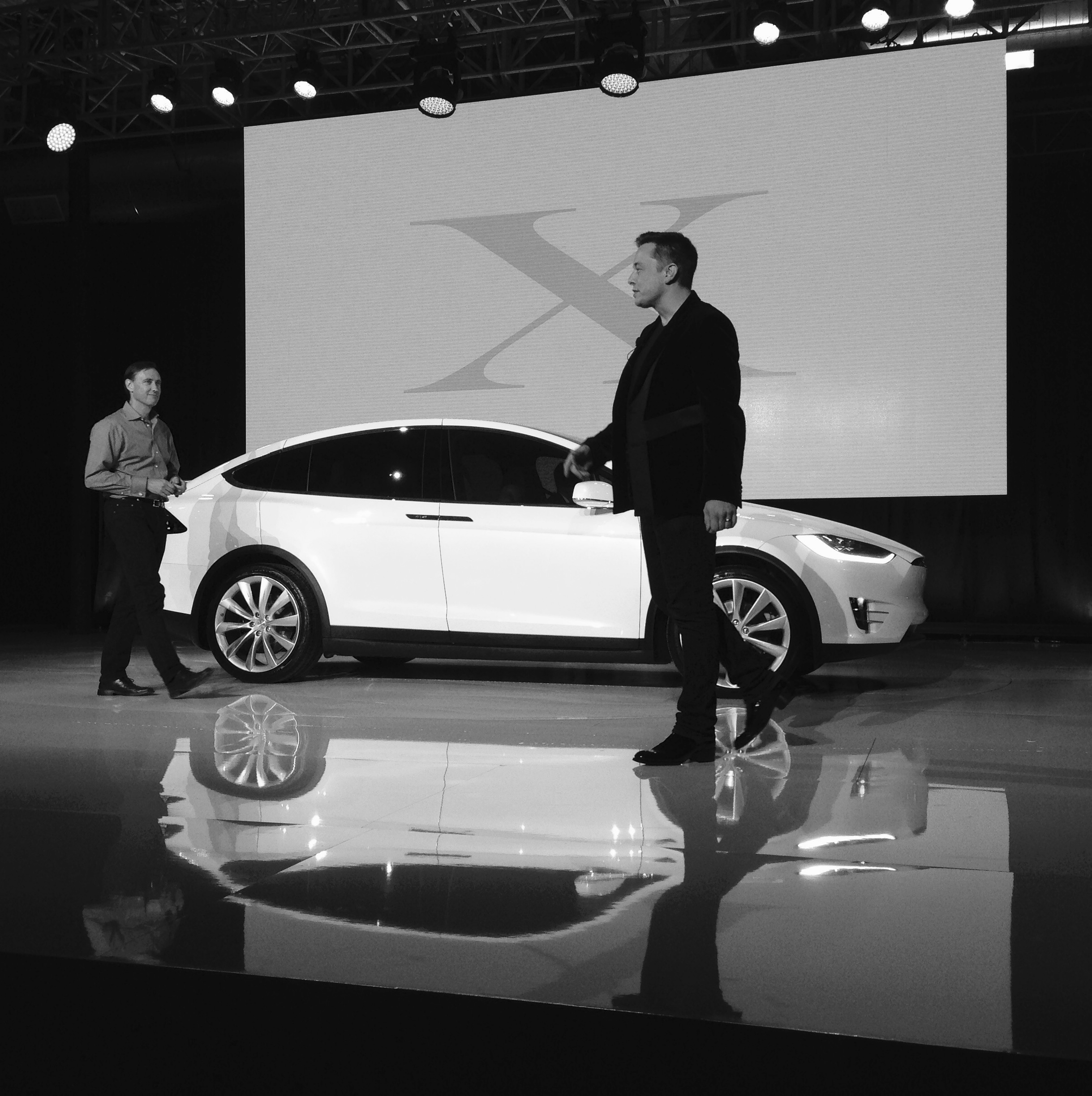 Steve Jurvetson receiving his Tesla Model X (VIN 2) from Elon Musk at the Launch Event on 29 September 2015, Fremont, California